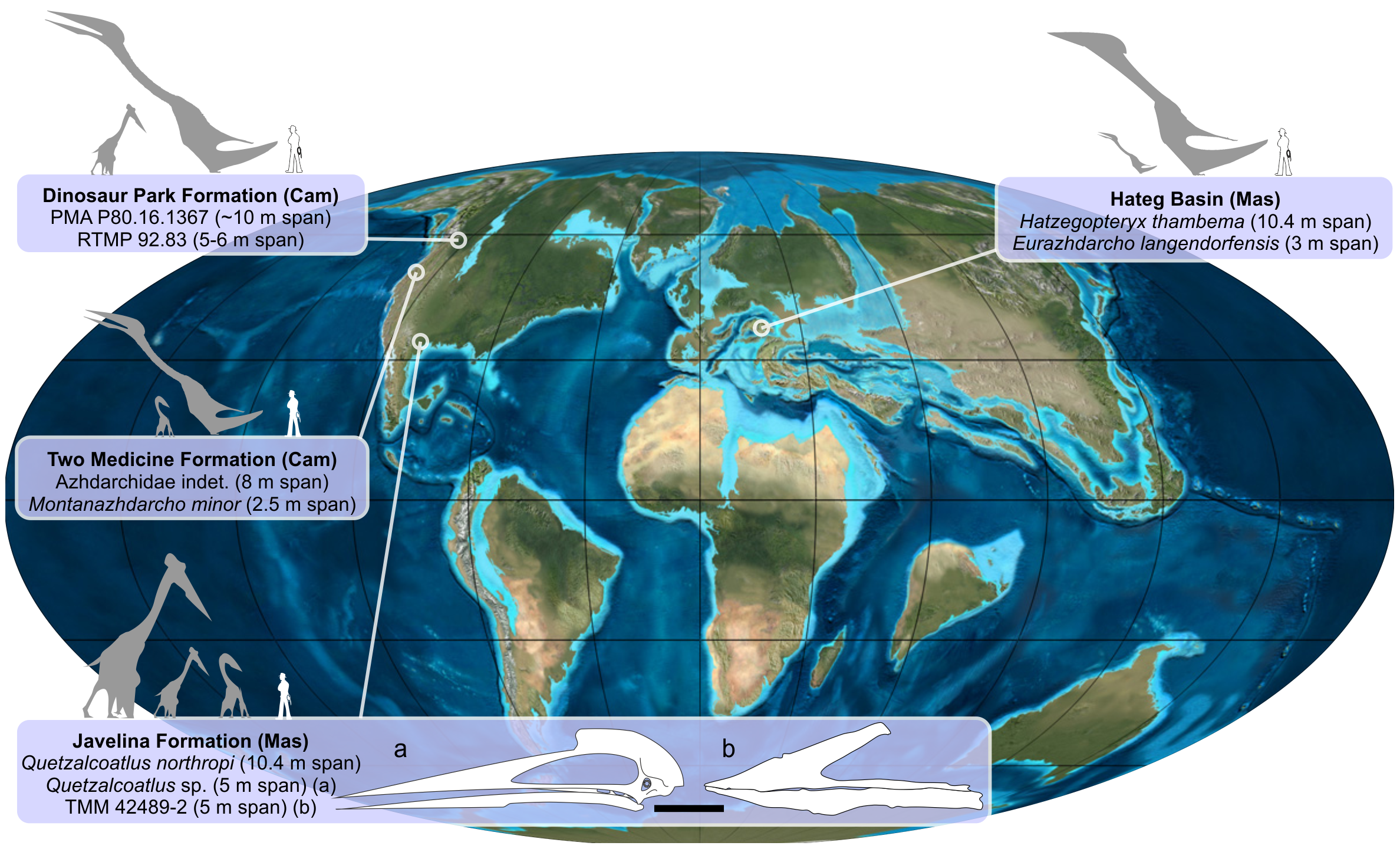 Map to show the global distribution of faunas containing small-medium and giant-sized azhdarchids, evidence for niche partioning. Temporal range: Late Cretaceous, 108–66 Ma